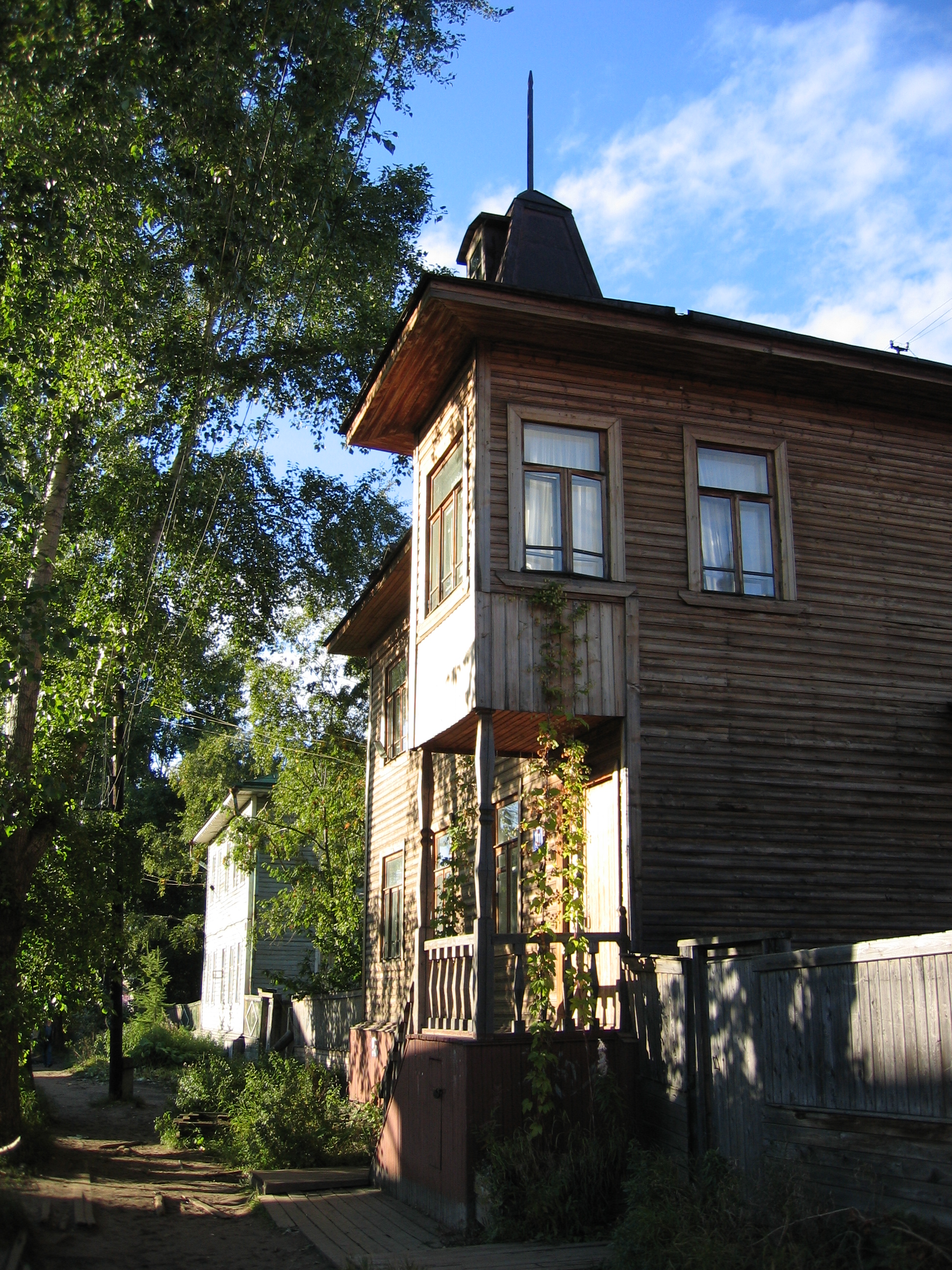 A traditional city manor in Arkhangelsk, located on the Chumbarov-Luchinsky avenue - a "sanctuary" for the pieces of the exctincting northern style of wooden city houses